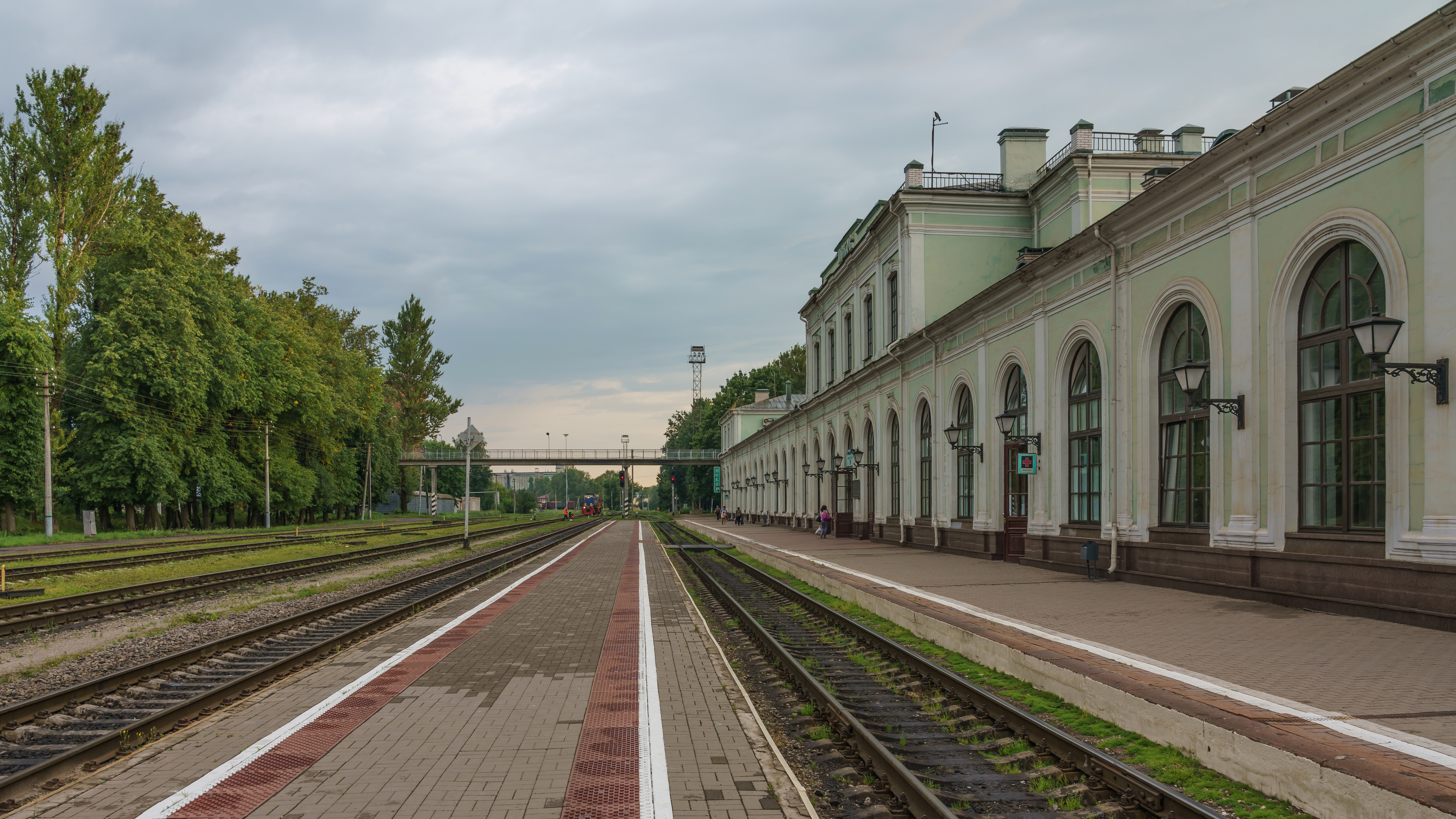 Railway station (track side) in Pskov, Russia